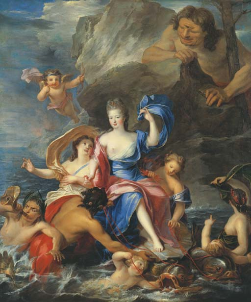 The painting is dated as 1692, the year of her marriage to Felipe II, Duke of Chartres.